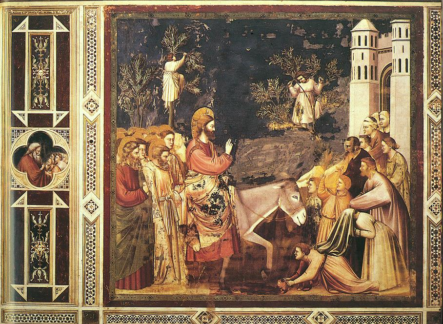 Life of Christ